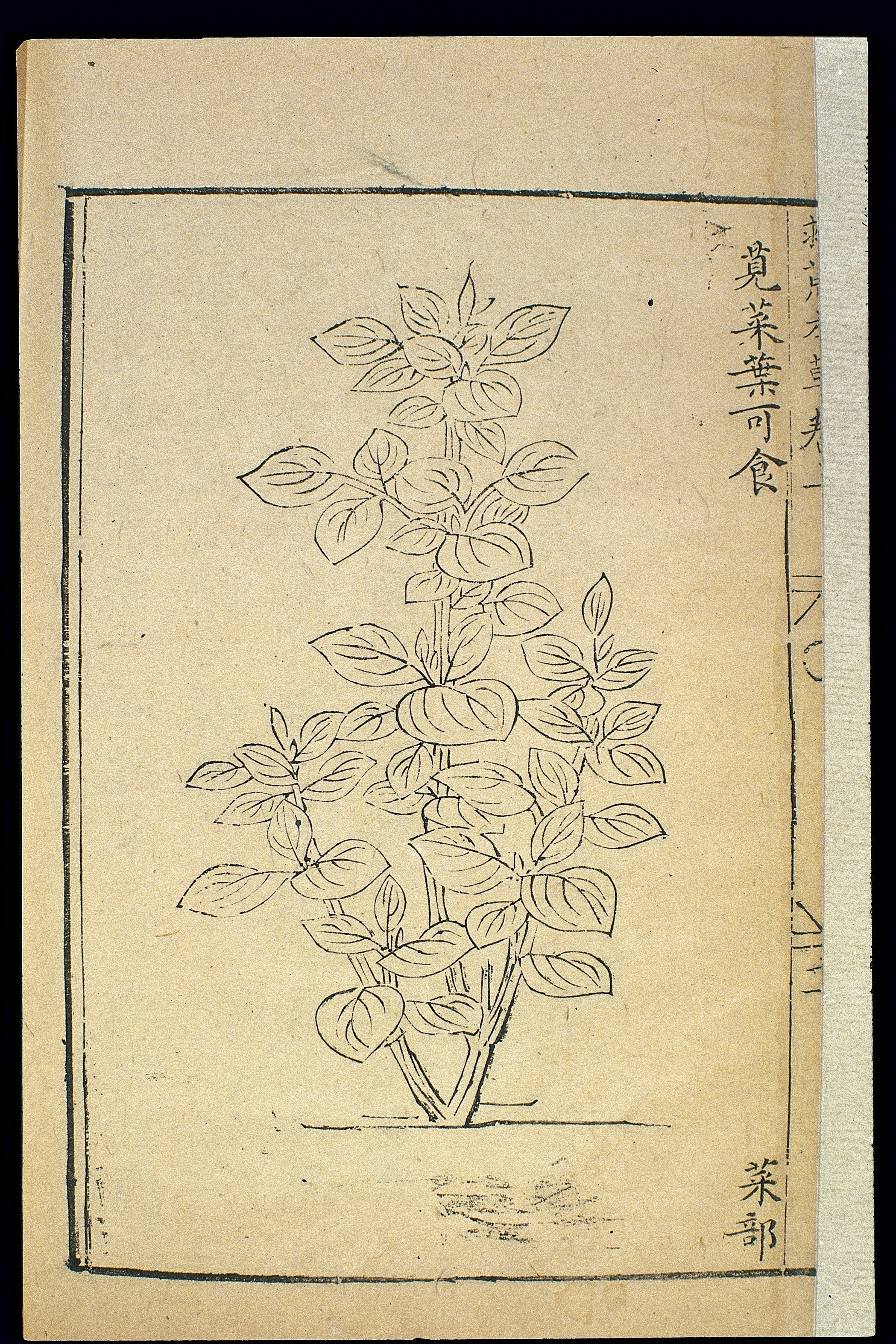 Woodcut illustration of edible amaranth (xiancai, Amaranthus mangostanus)fromJiuhuang bencao(The Famine Relief Herbal), edition of 1593 (21st year of the Wanli reign period of the Ming dynasty, Gui Si year). This herbal was compiled by Prince Zhu Su (?-1425), fifth son of the Ming Taizu Emperor (r. 1368-1398), the founder of the Ming dynasty. It was first engraved for publication in 1525. It contains entries on 414 edible plants, all of them illustrated. The author cultivated most of these plants in his gardens, and lived on the produce.In the text, Zhu Su states: The stem of the edible amaranth grows to 1-2chi. (1chi[Chinese foot] = c. 1/3 m.). The stems are ridged, and the leaves are large and of two colours: red or white. The cultivated variety is larger, while the wild plant is smaller and more slender and the leaves are less thick. It is sweet in sapor, cold in thermostatic character, and non-poisonous. It must not be eaten together with turtle meat. In the event of famine, the stems and leaves are collected and boiled till tender. They are then cleaned by immersion in water and eaten with a seasoning of oil and salt.Woodcut